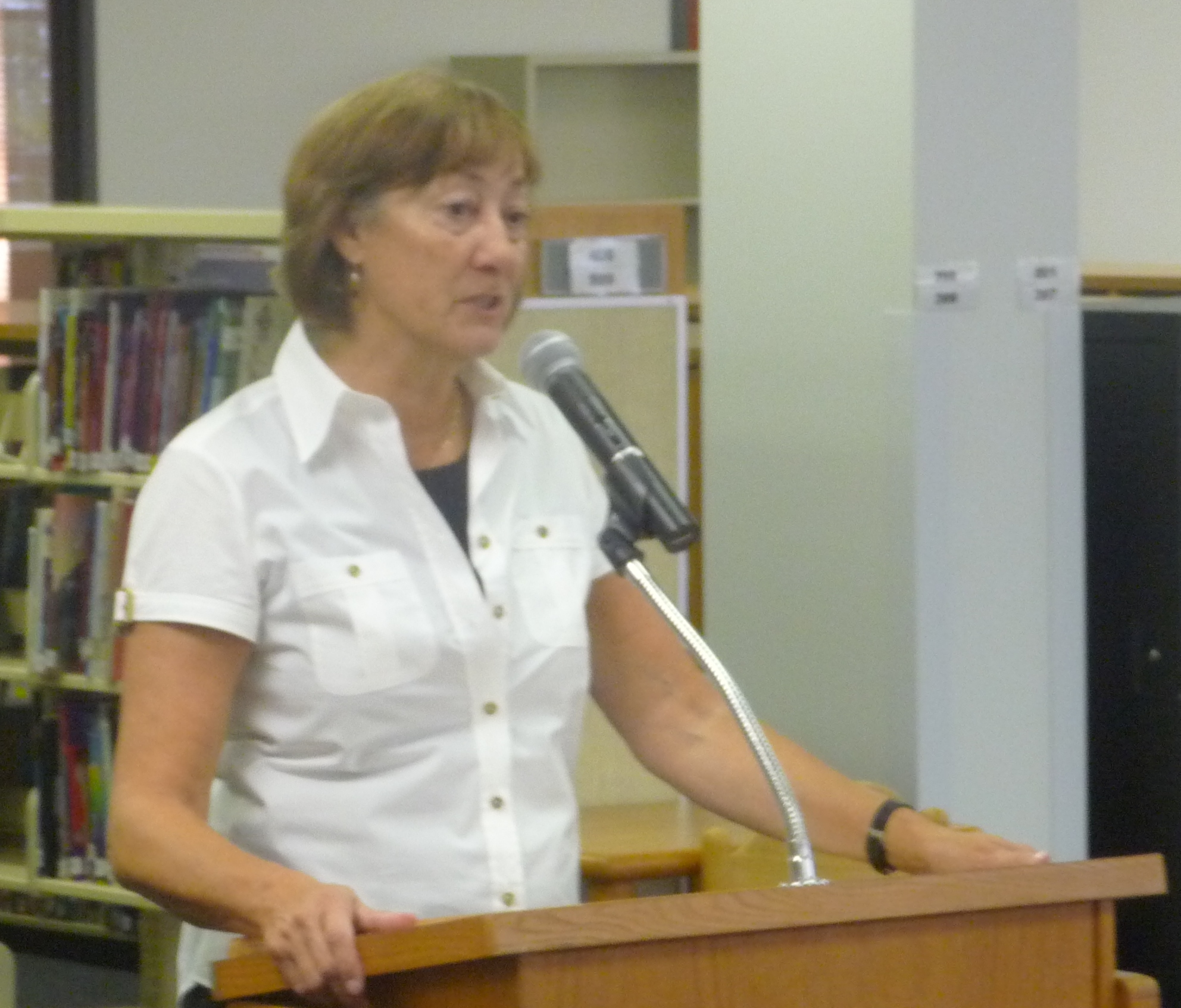 Picture of the author Sharon Creech. She won the 1995 Newbery Medal for her book Walk Two Moons.